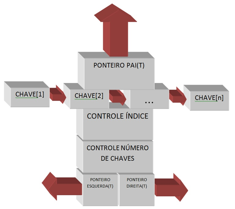 T-tree node